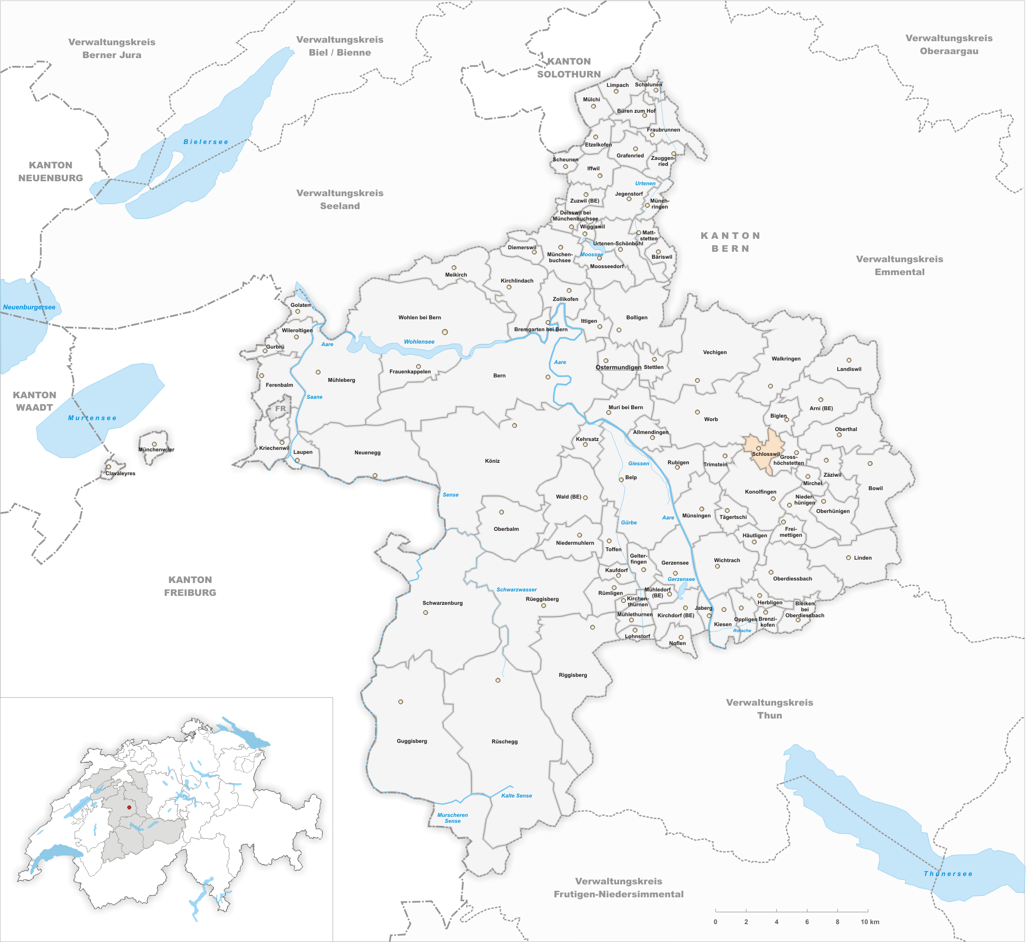 Municipality Schlosswil